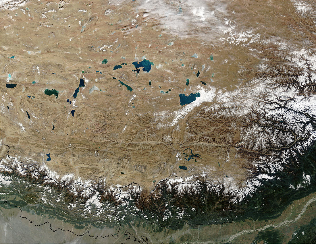 Moderate Resolution Imaging Spectroradiometer (MODIS) show the high, arid, Tibetan Plateau in Asia. Tibet lies north of the Himalaya Mountains in Nepal. The Plateau is dotted with a mixture of fresh and salt water lakes. For example, the two lakes in the left-center portion of the image near the Nepal-China border are fresh water, while the large lakes in the cluster to the northeast are salt water. Sensor: Terra/MODIS. Data Start Date: 12/9/02. Data End Date: 12/9/02.